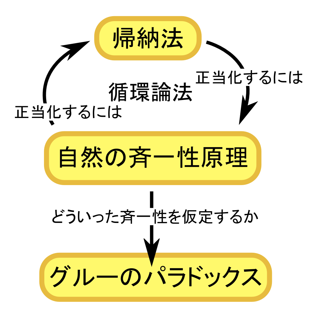 Japanese explanation of relations between induction, principle of uniformity of nature and paradox of glue, are discussed mainly on philosophy of science.